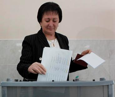 Alla Dzhioyeva, first round of 2011 presidential election in South OssetiaИрон: Джиоты Аллæ хъæлæс кæны 2011-æм азы президенты бынатмæ æвзæрстыты фыццаг туры